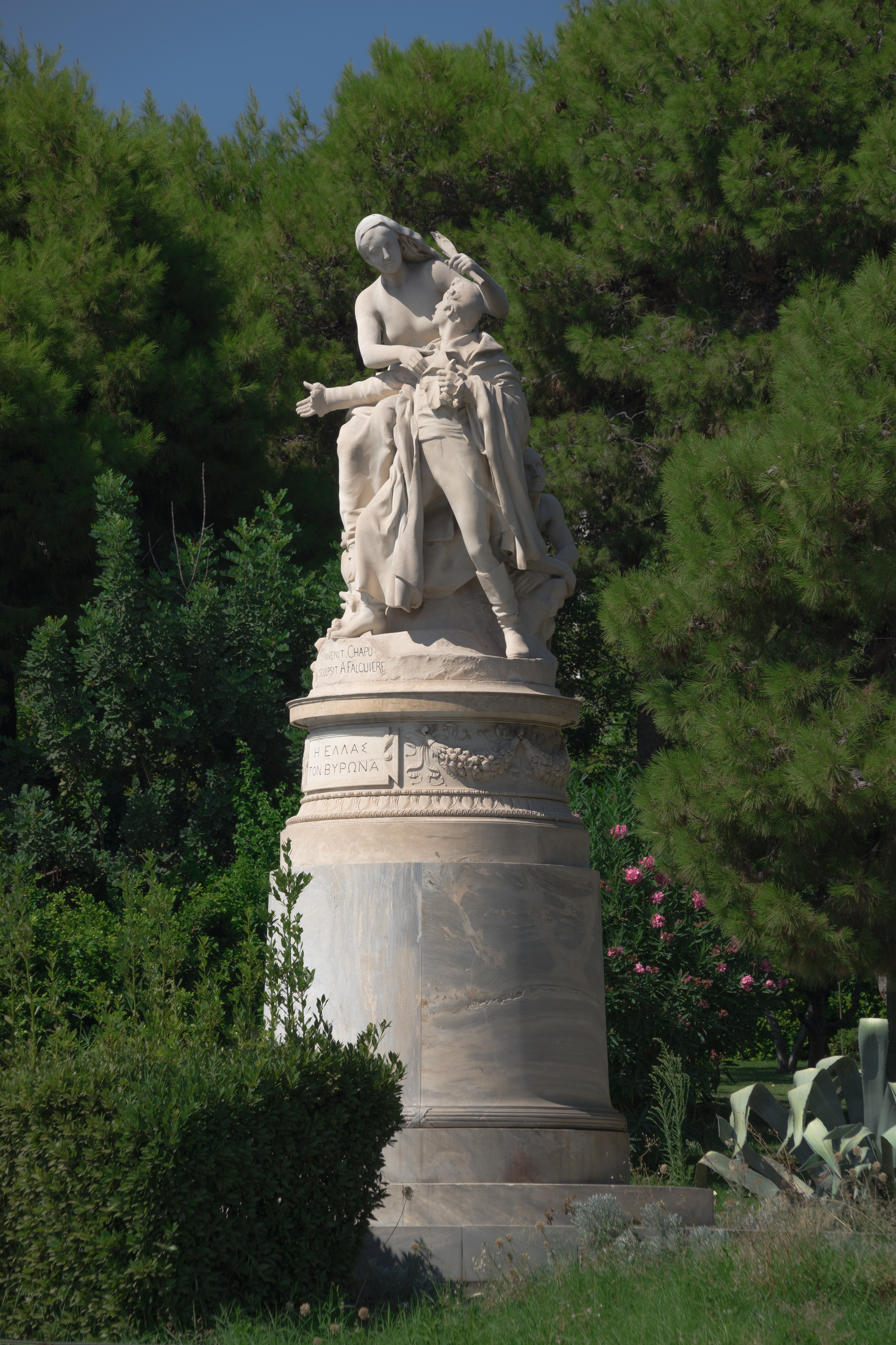 Monument to lord George Gordon Byron, Athens, Greece.